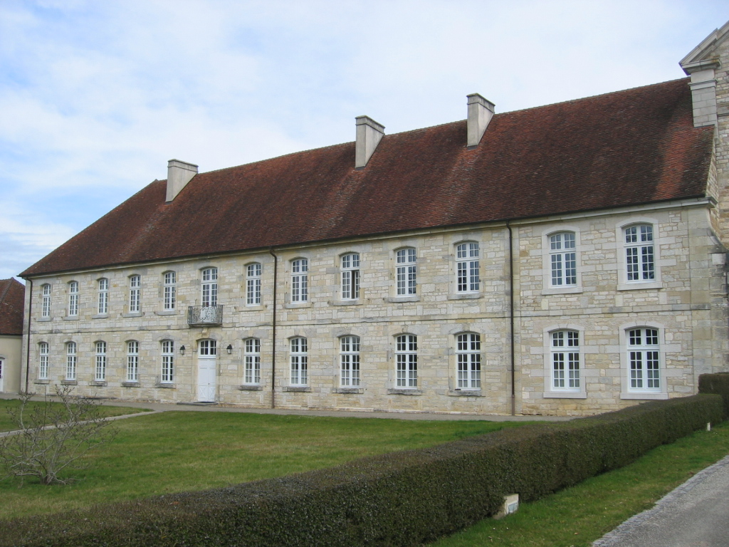 Abbaye d'Acey, Jura, France